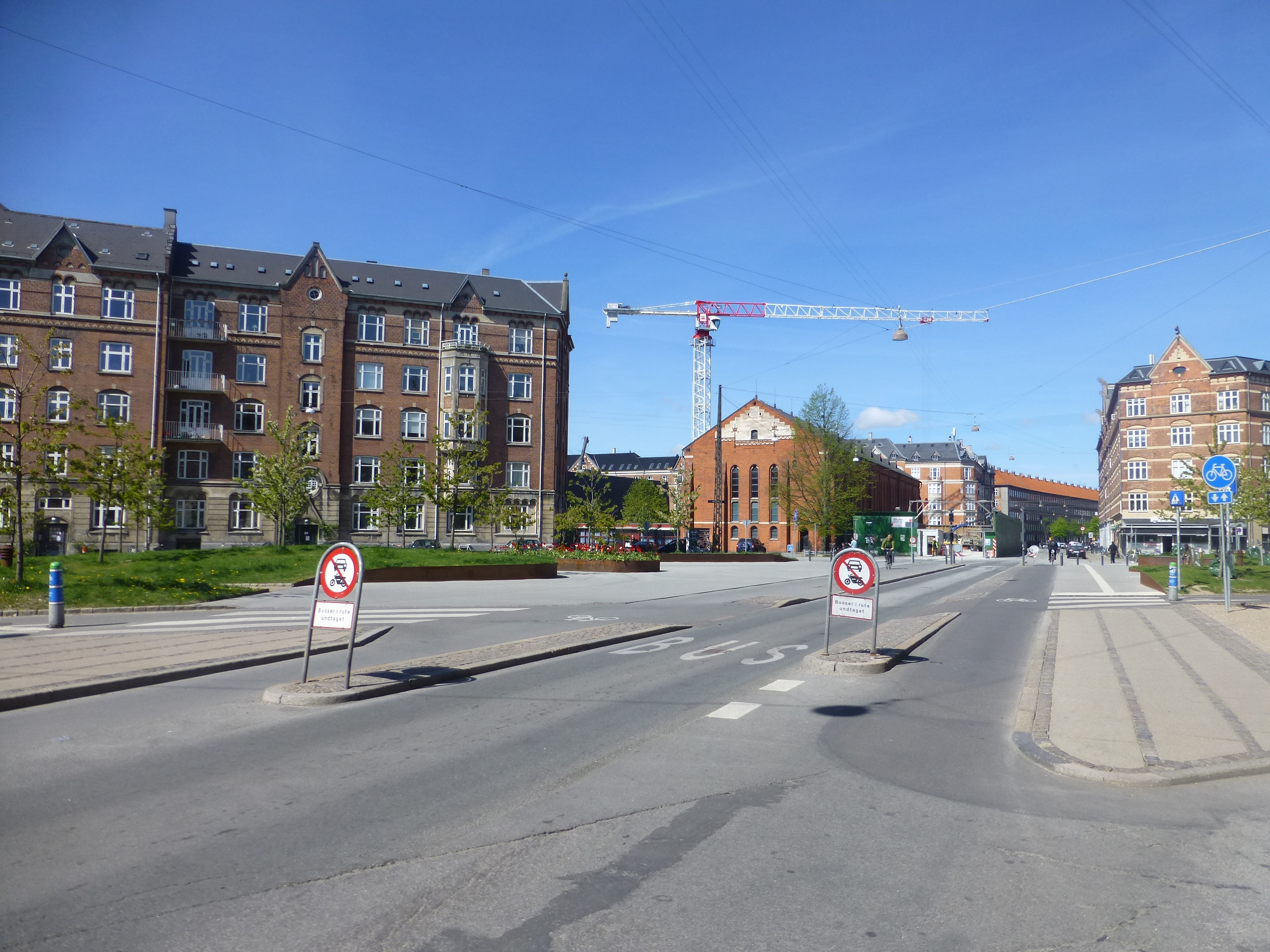 The street Rantzausgade in Nørrebro in Copenhagen.